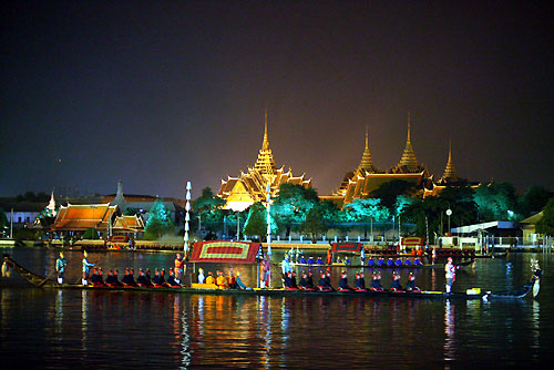 BANGKOK. Light and music aquatic show.